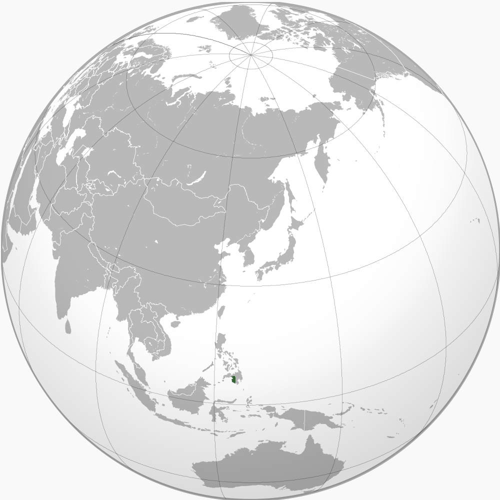 Green depicts the Sultunate of in the early 19th century